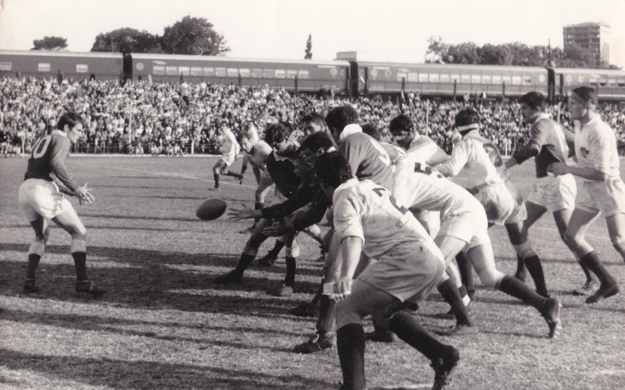 Wales national rugby team playing a match during their tour on Argentina. Not identified rival team.